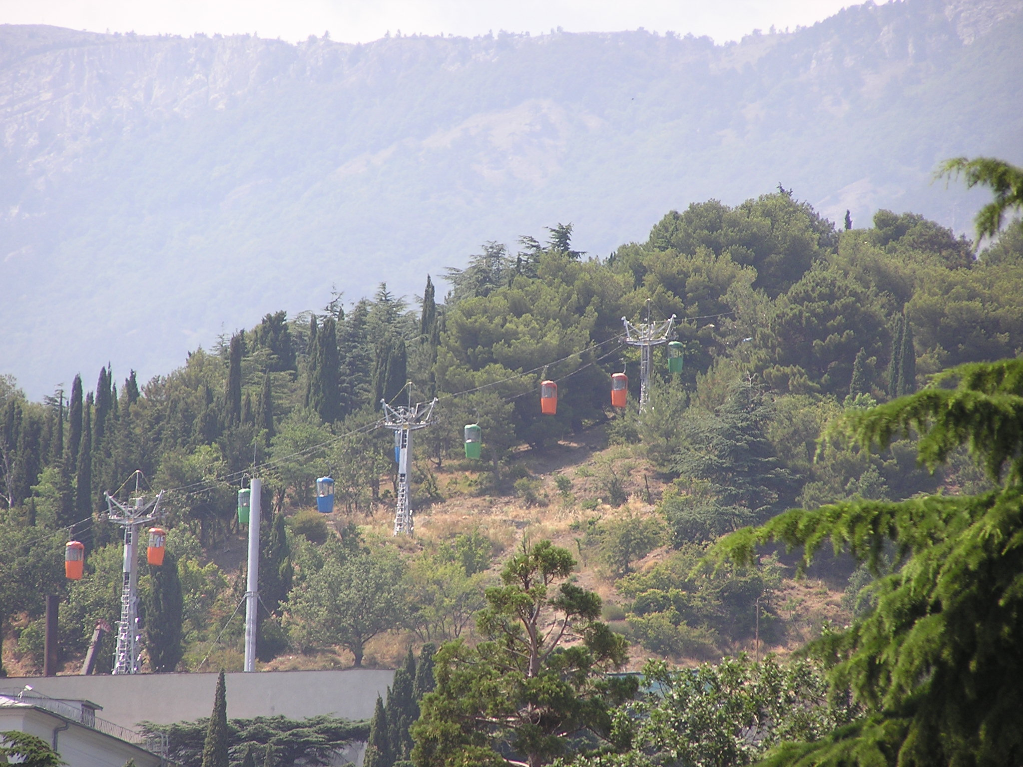 Cableway in Yalta